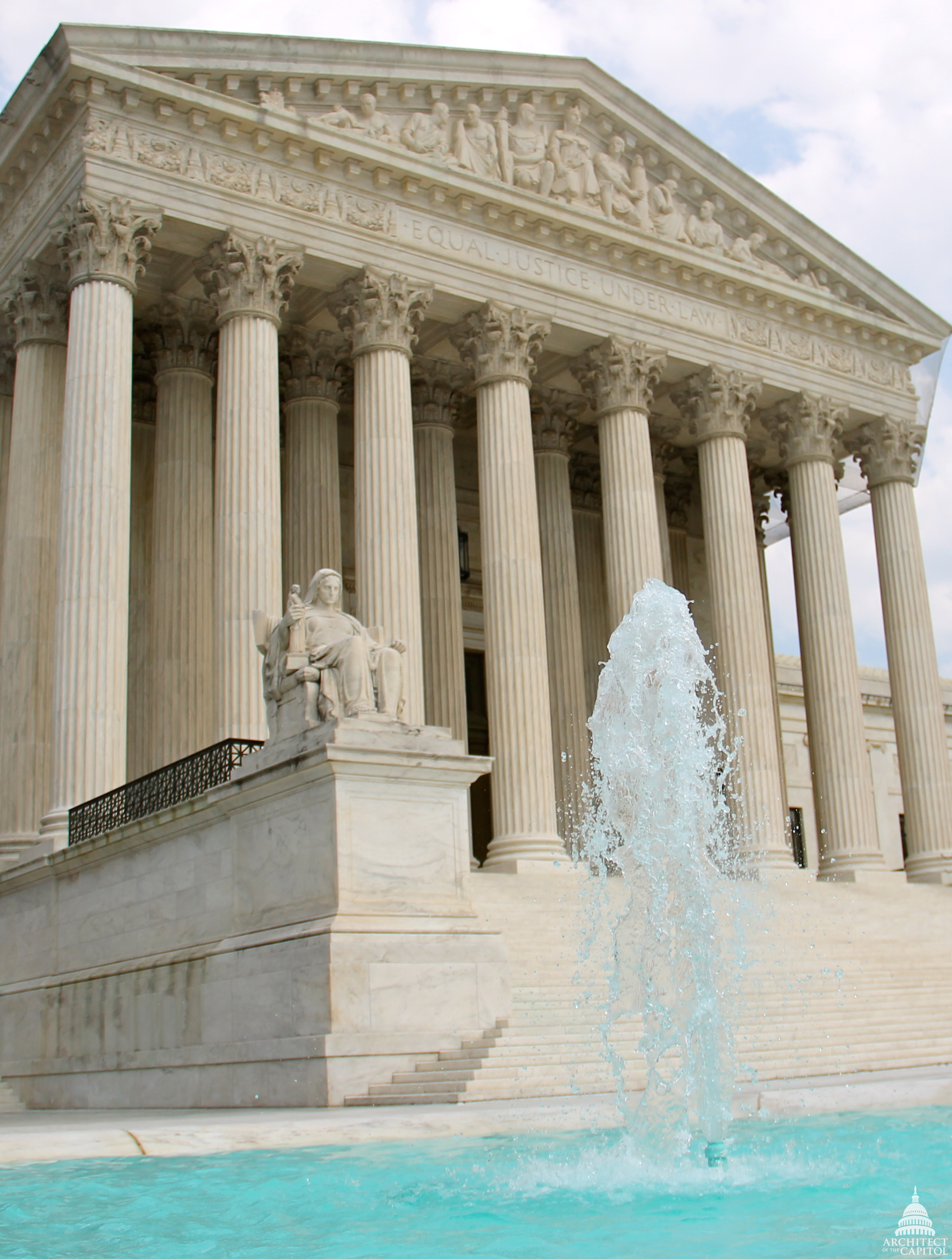 View from West Terrace This official Architect of the Capitol photograph is being made available for educational, scholarly, news or personal purposes (not advertising or any other commercial use). When any of these images is used the photographic credit line should read “Architect of the Capitol.” These images may not be used in any way that would imply endorsement by the Architect of the Capitol or the United States Congress of a product, service or point of view. For more information visit